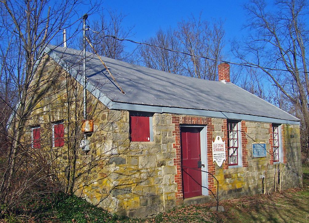 Photographed by Daniel Case 2006-12-09 Category:Images of New York